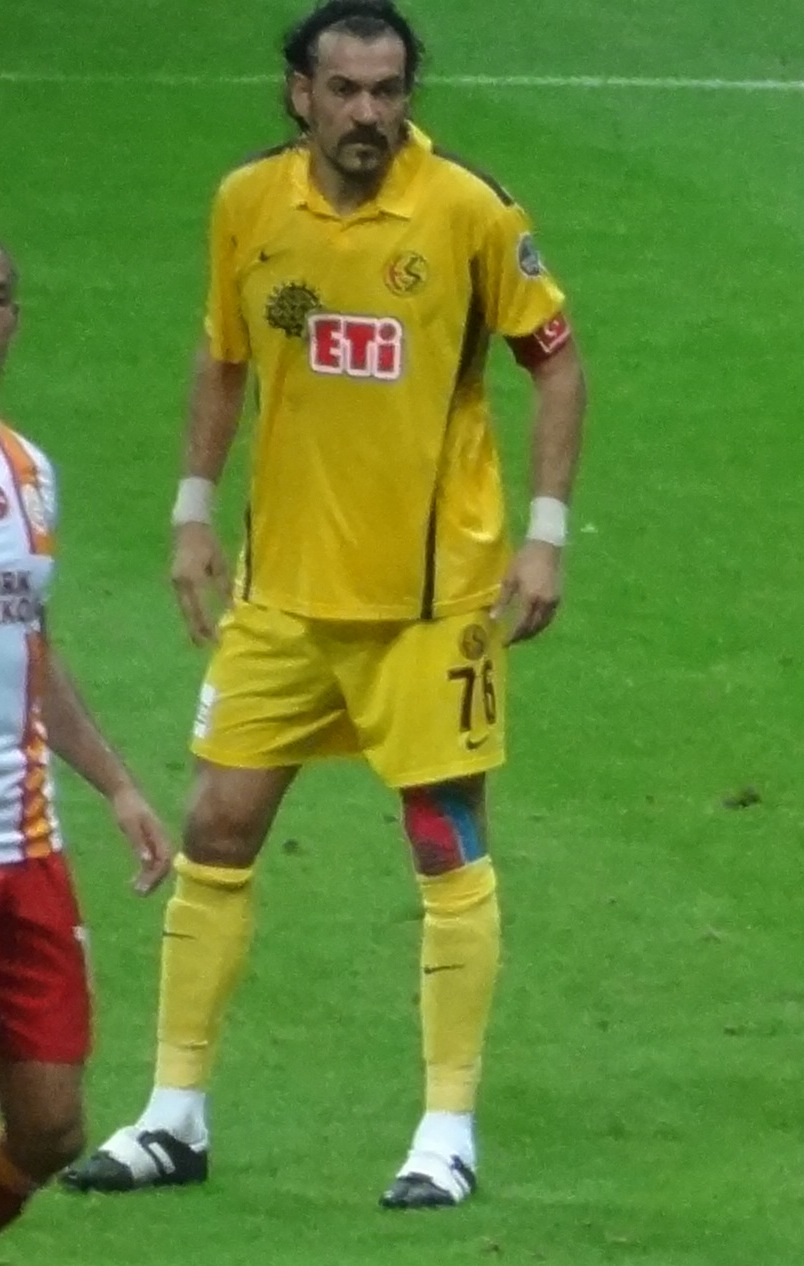 Servet with Es-ES